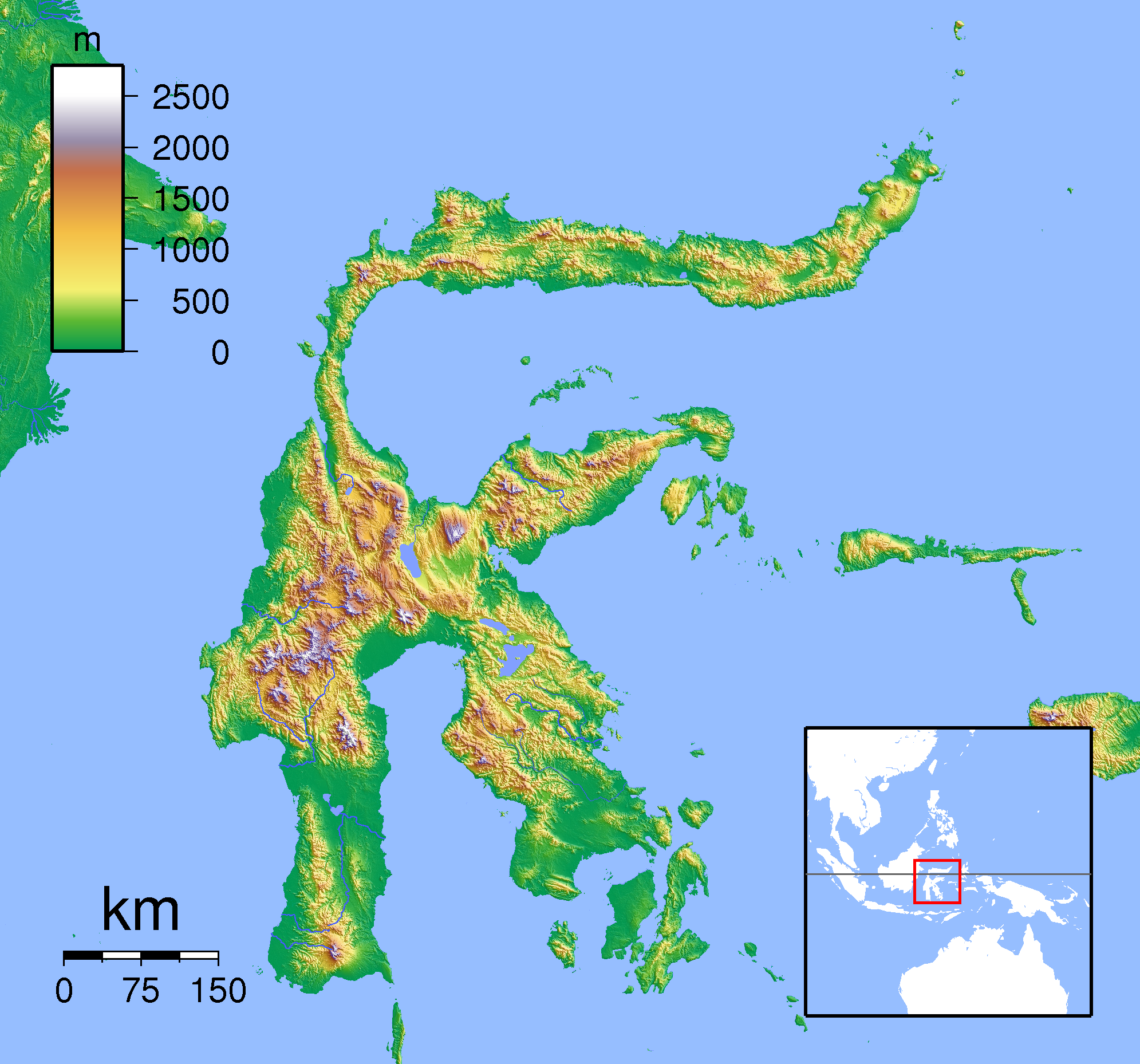 Topographic location map of Sulawesi. Created with SRTM from publicly released SRTM data. For non-locator version, see Image:Sulawesi Topography.png. Left:117 South:-6.333333 Right:127 Top:3